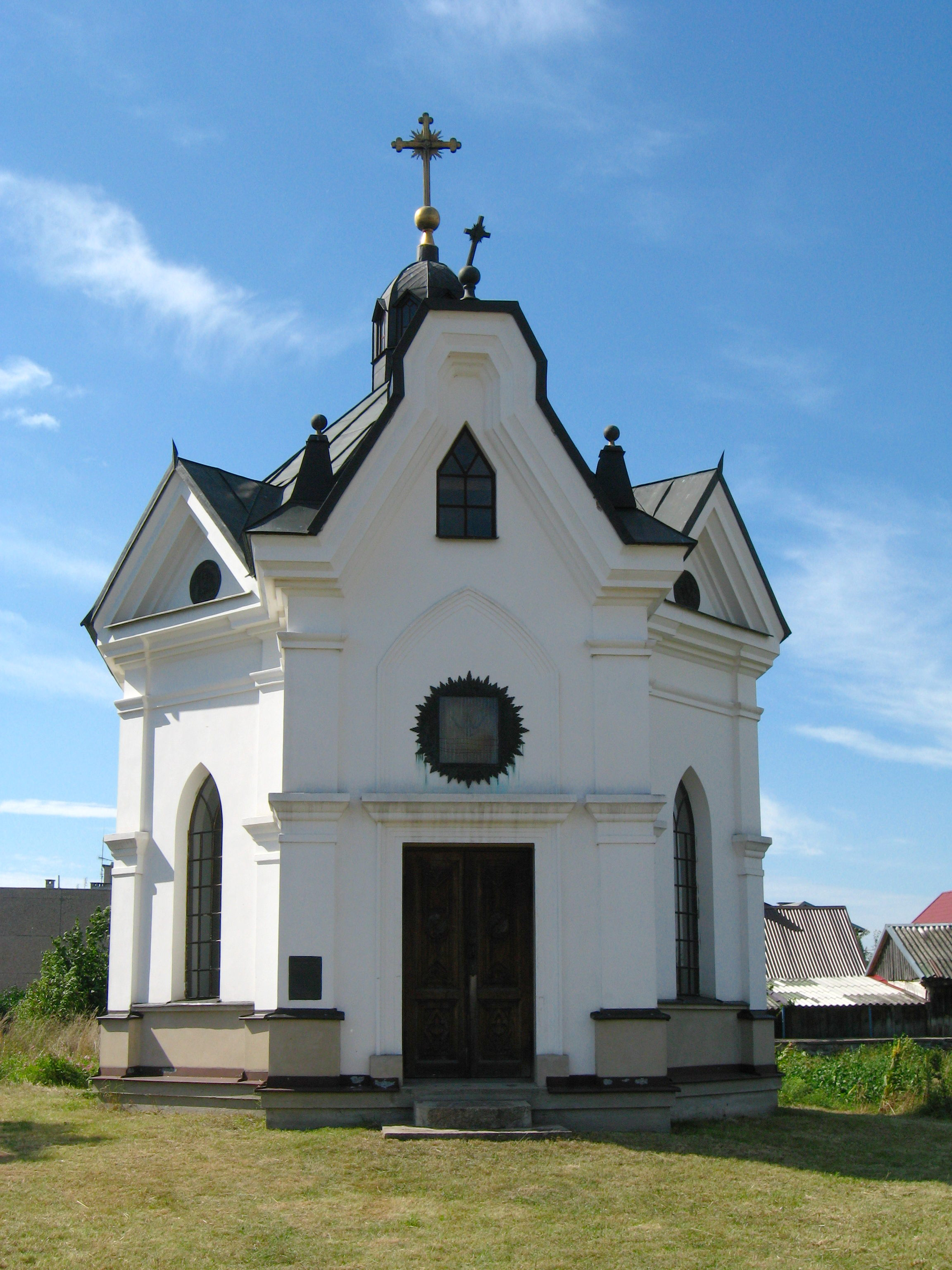 Chapel of Saint Roch — classicist chapel built in 1850.